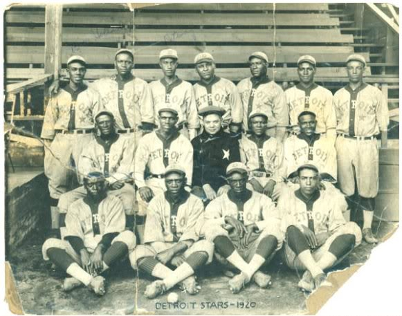 1920 Detroit StarsTop row, L-R: Bill Holland, Edgar Wesley, Bruce Petway, Charlie Harper, Bill Gatewood, unidentified, unidentifiedMiddle row, L-R: Buck Hewitt, Pete Hill, Tenny Blount, Jimmy Lyons, Andy CooperBottom row, L-R: unidentified, William Force, Orville Riggins, unidentified